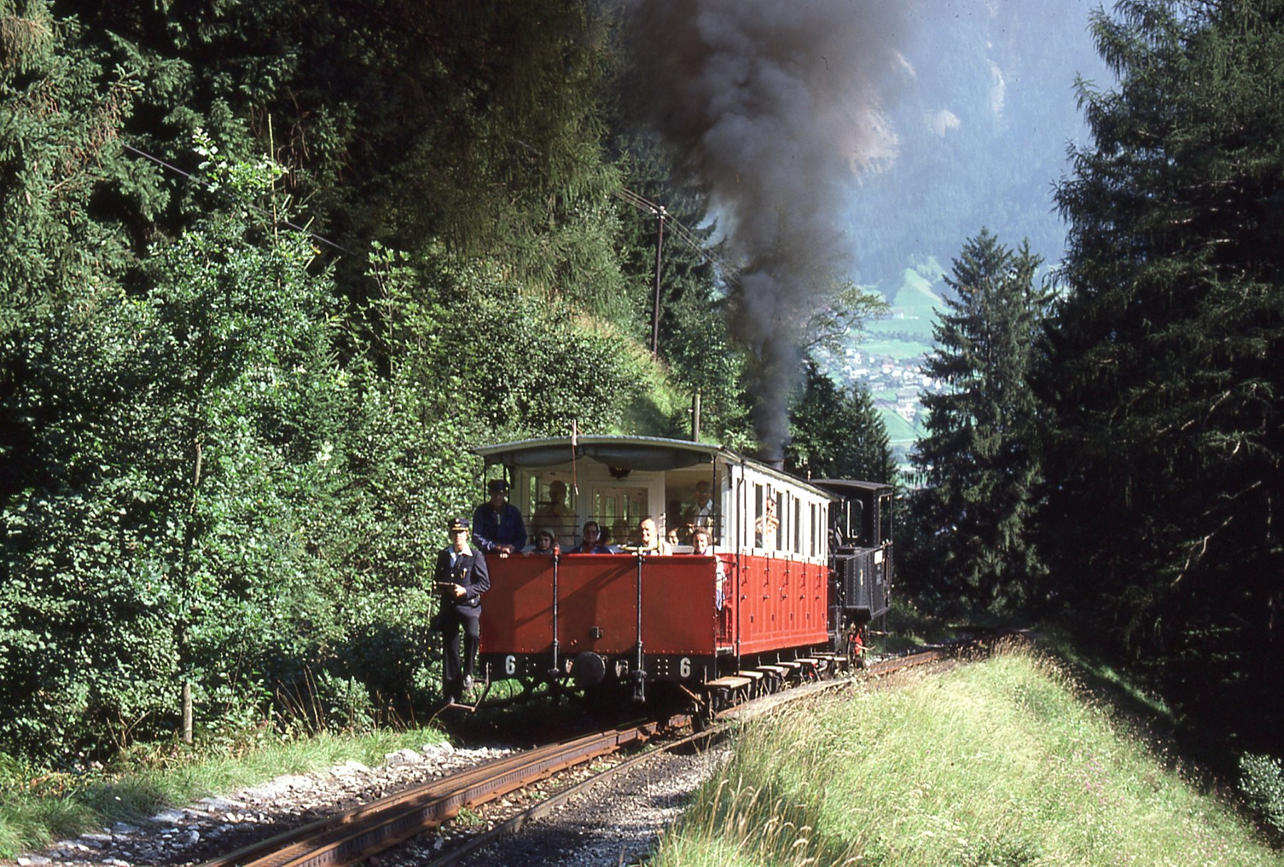 Train of the Achenseebahn with one car on the rack section above Jenbach.